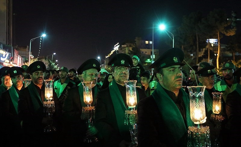 Sham Ghariban in Imam Reza shrine, Mashhad